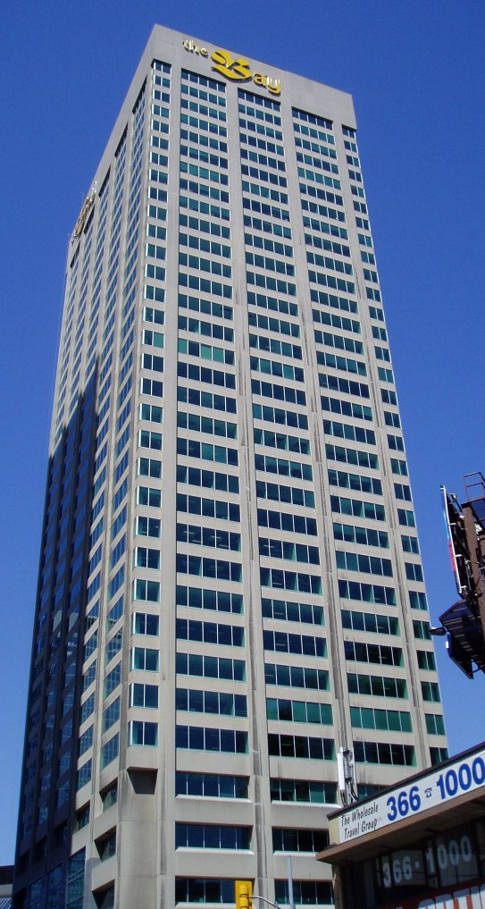 Taken by SimonP in April 2005 The Hudson's Bay Centre Tower facing the northeast corner of Bay and Bloor Street in Toronto. The 35 floor tower was built in 1974.